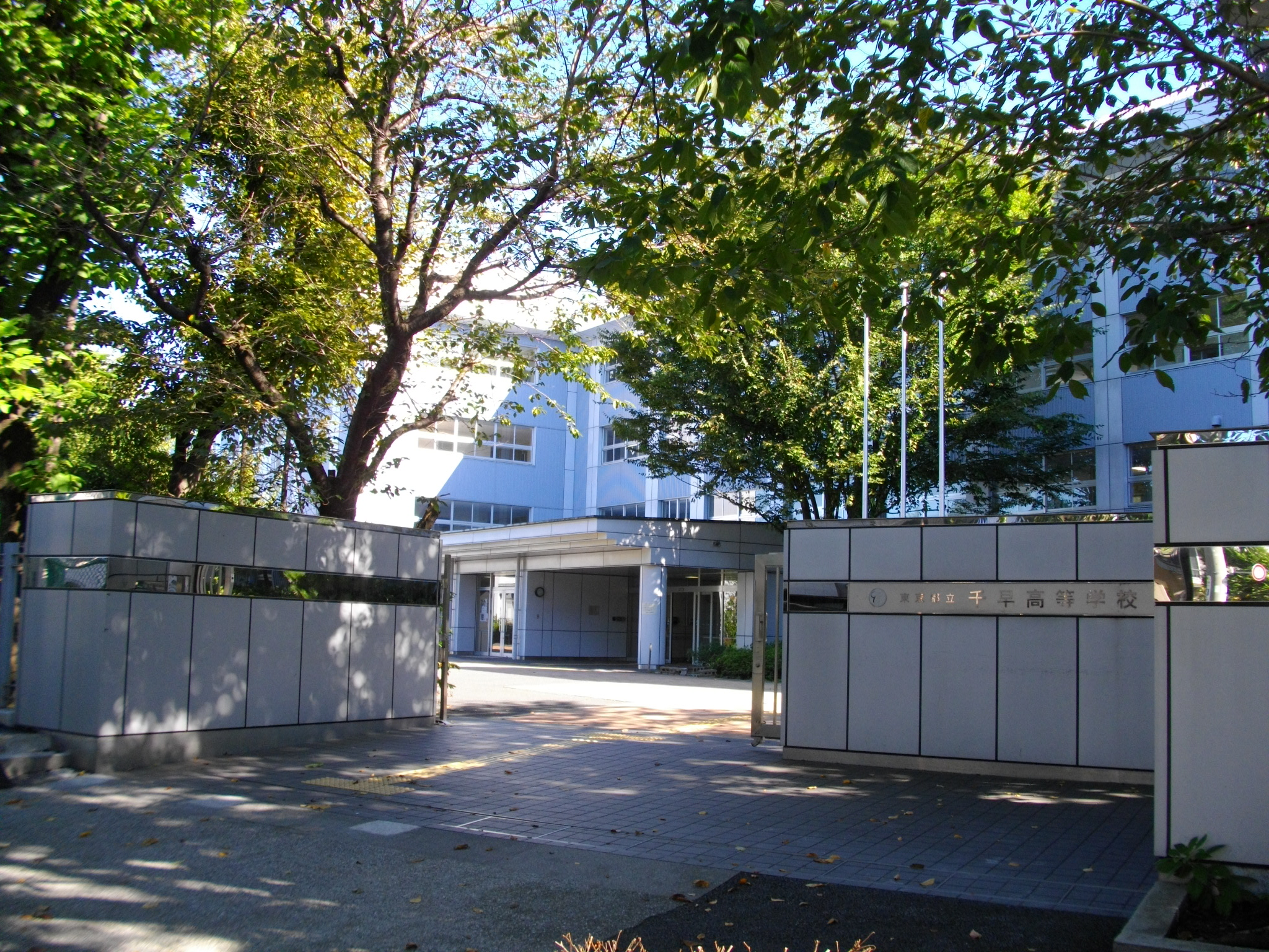 Chihaya High School